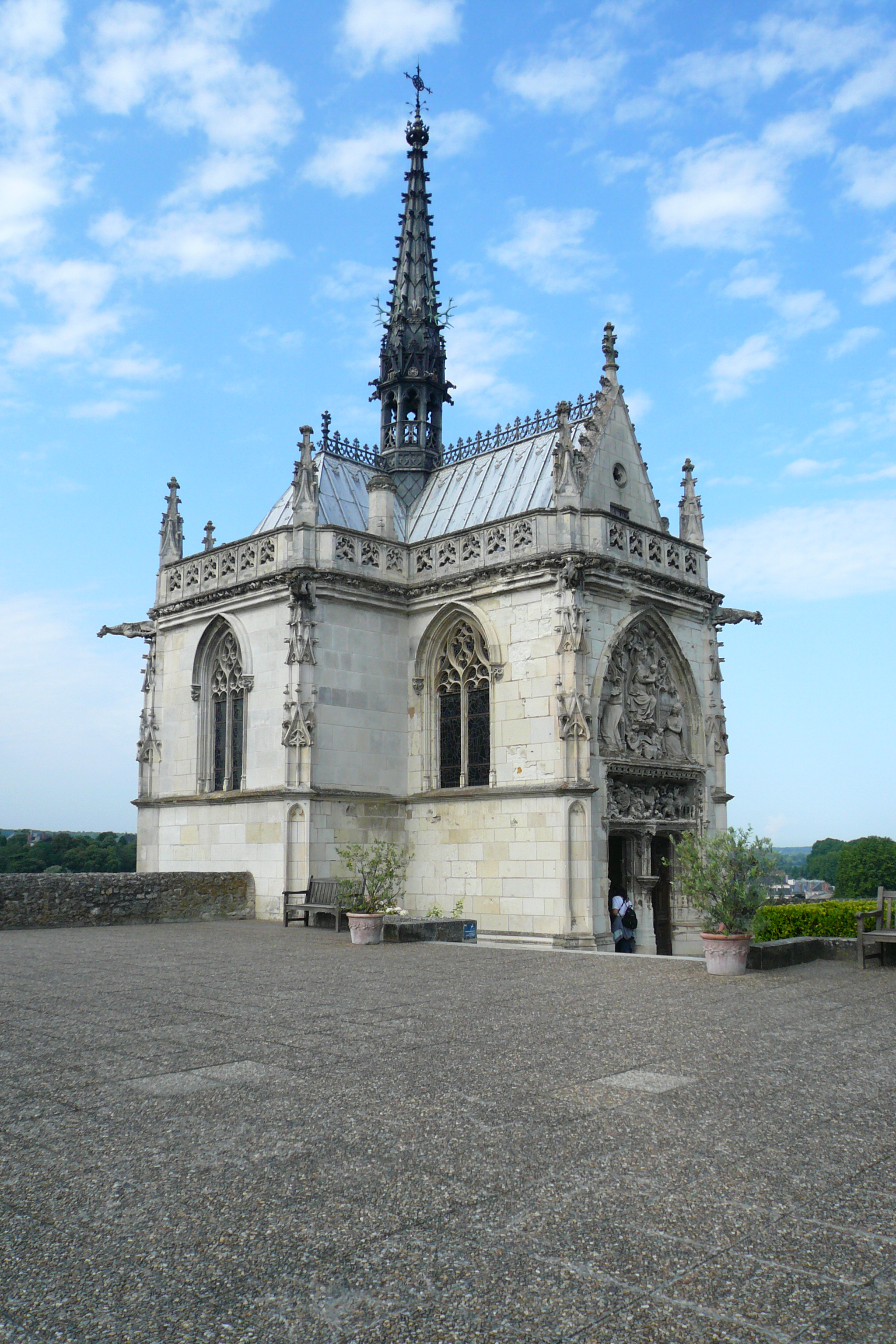 Chapelle Saint-Hubert at the Château d'Amboise